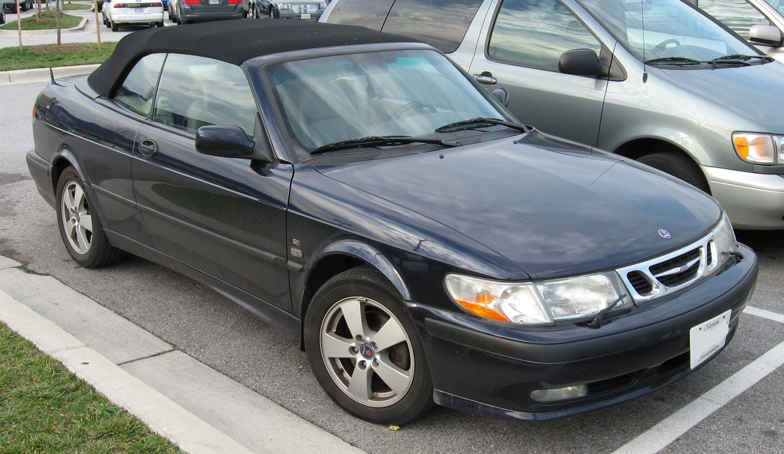 1999-2002 Saab 9-3 convertible photographed in USA.